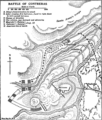 Contreras